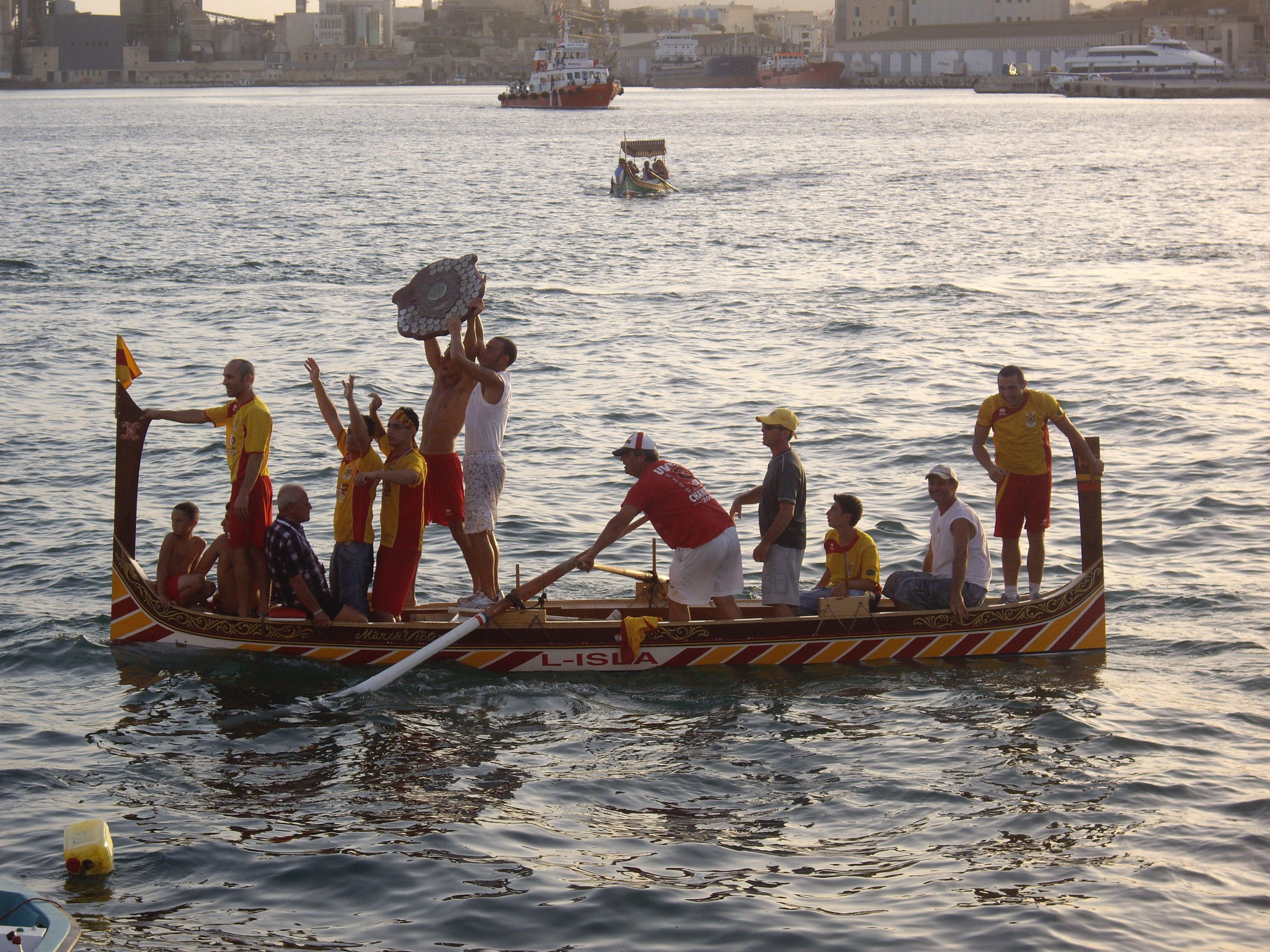 Senglea Regatta rowers celebrating their 19th victory in the September 2008 Regatta.